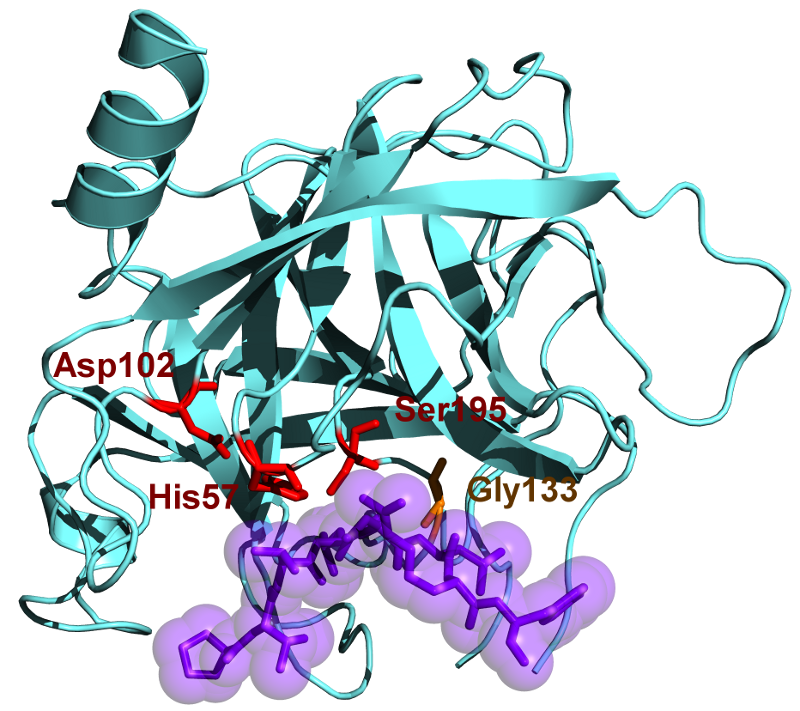 Chymotrypsin form pdb-file 4cha